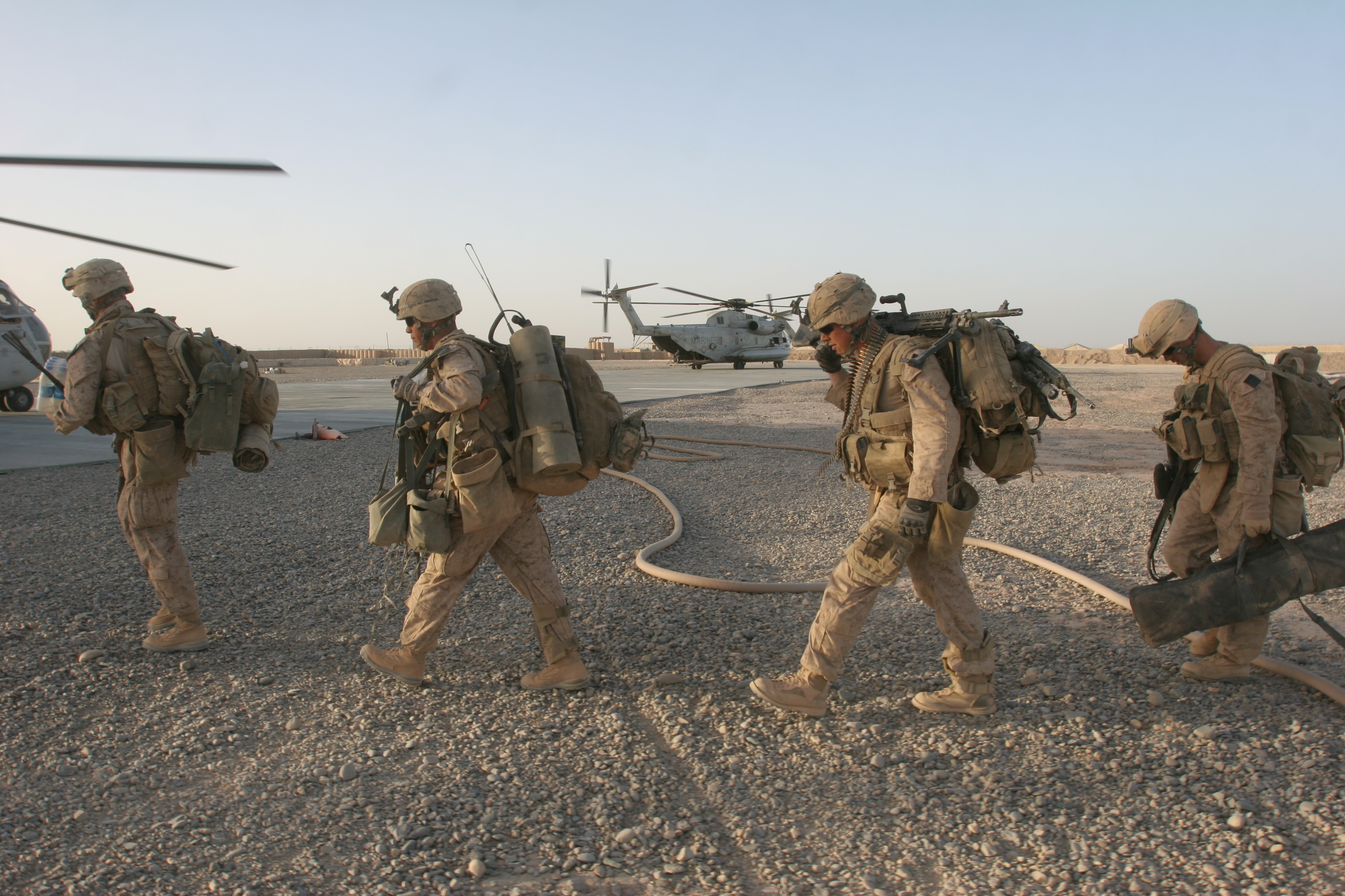 U.S. Marines with 2nd Battalion, 8th Marine Regiment, Regimental Combat Team 3, 2nd Marine Expeditionary Brigade prepare to board CH-53D Sea Stallion and CH-53E Super Stallion helicopters on Forward Operating Base Dwyer, Afghanistan, July 2, 2009. The Marines are working with the Afghan National Security Force to build and transition security responsibilities for the Helmand Province to Afghan forces. (DoD photo by Chief Warrant Officer 3 Philippe Chasse, U.S. Marine Corps/Released)